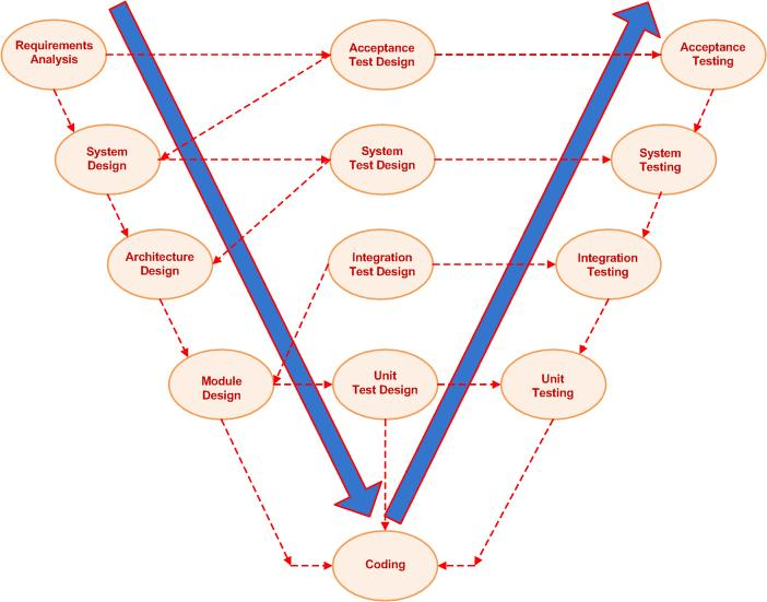 V-model